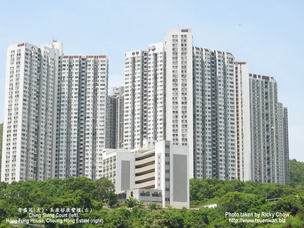 Ching Shing Court, Tsing Yi, New Territories, Hong Kong